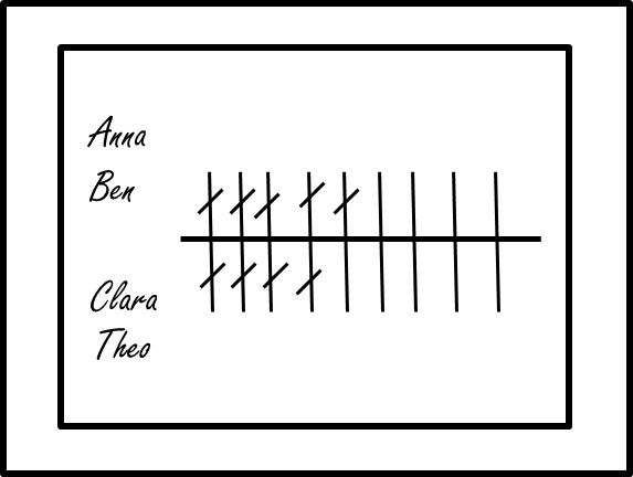 An example of the traditional scoring system in the Danish card game of Brus